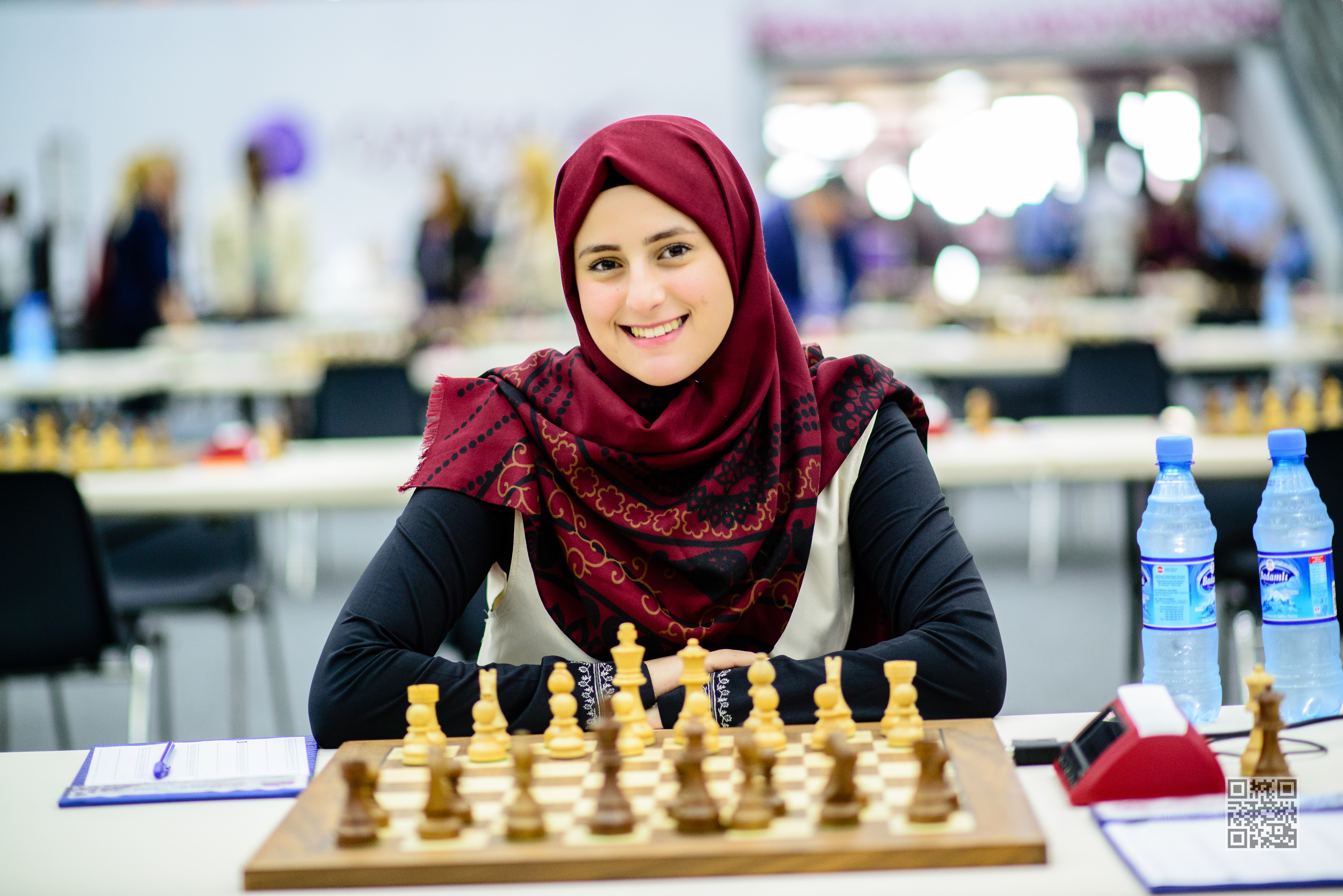 Boshra Alshaeby